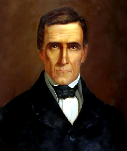 Study for a Portrait of José María Vargas.